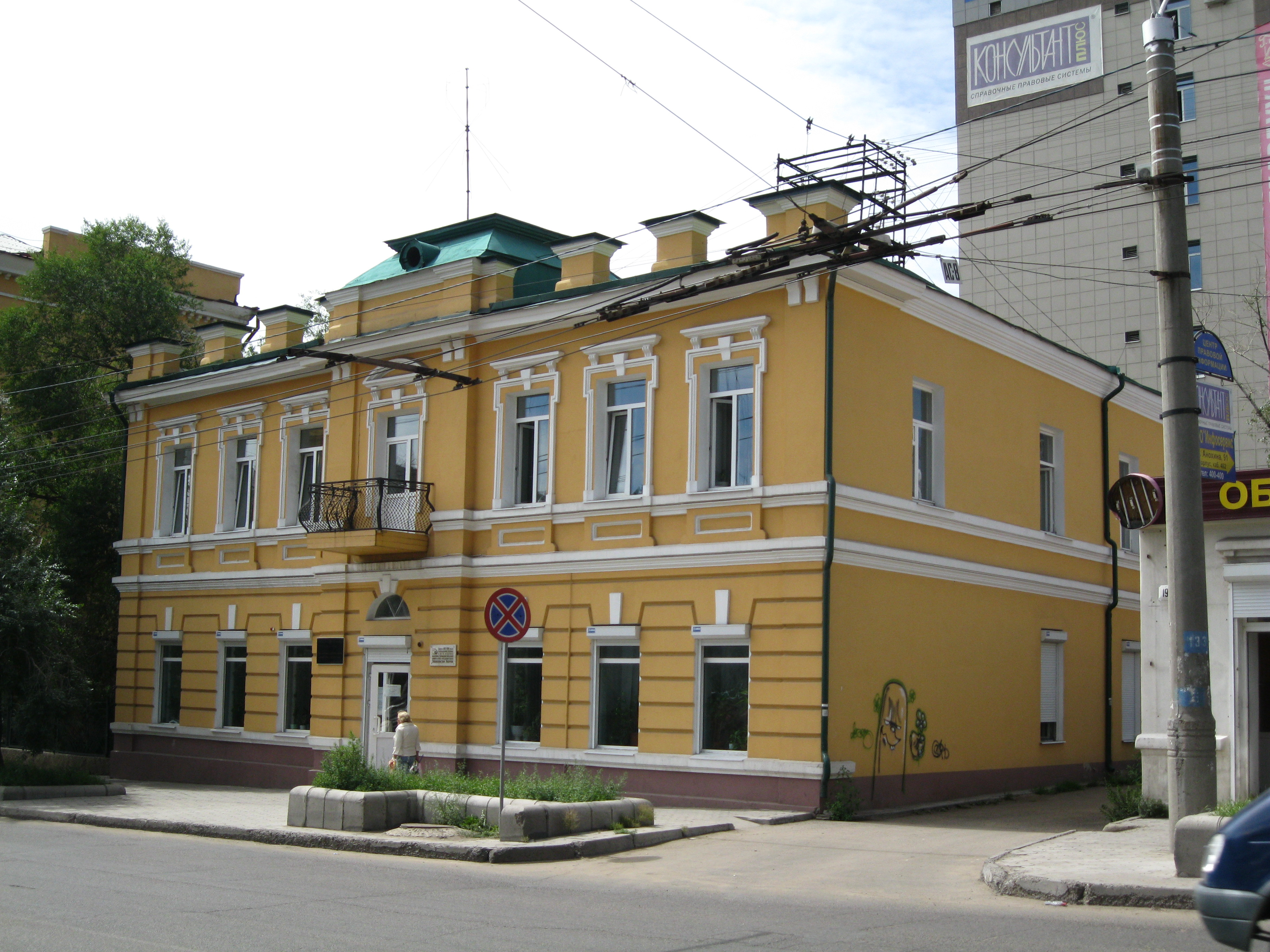 Lopatina-Gantimourova palace in Chita, Russia